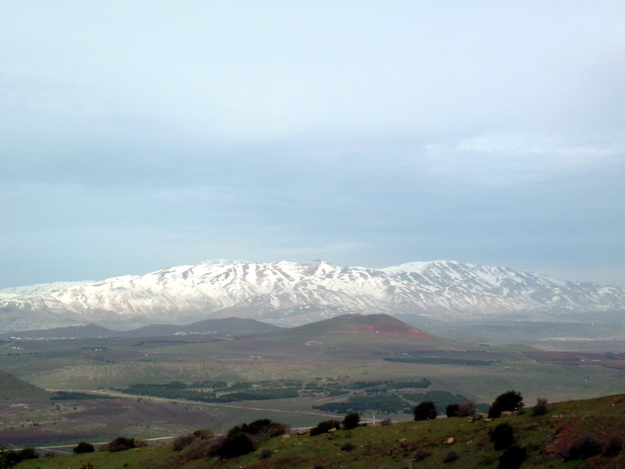 Snowy Mount Hermon as seen from Mt. Bental.